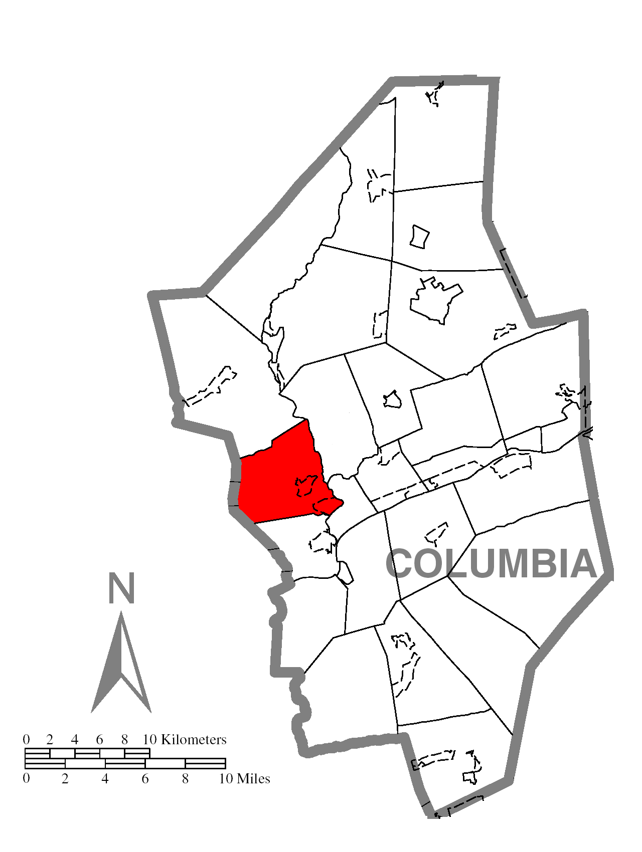 A map of Columbia County showing Hemlock Township, Pennsylvania (alternate) highlighted on the map.